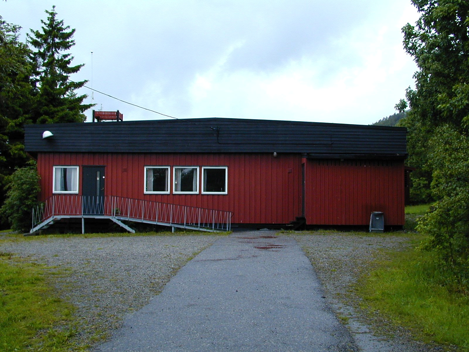 Bergmo småkirke sett fra øst